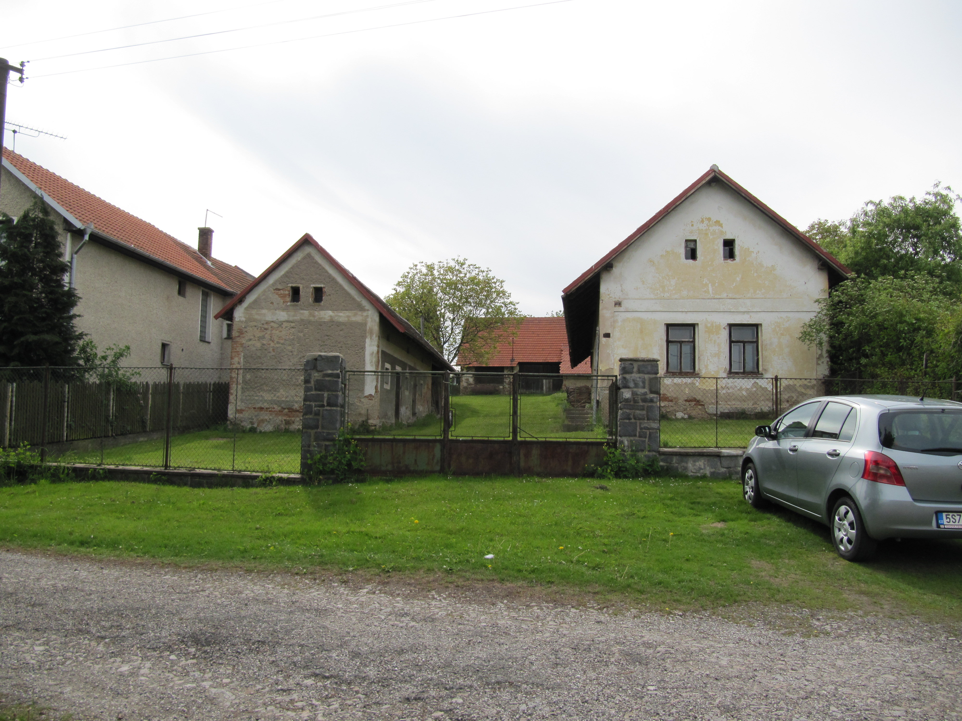 Choratice in Benešov District, Czech Republic. Cottages.